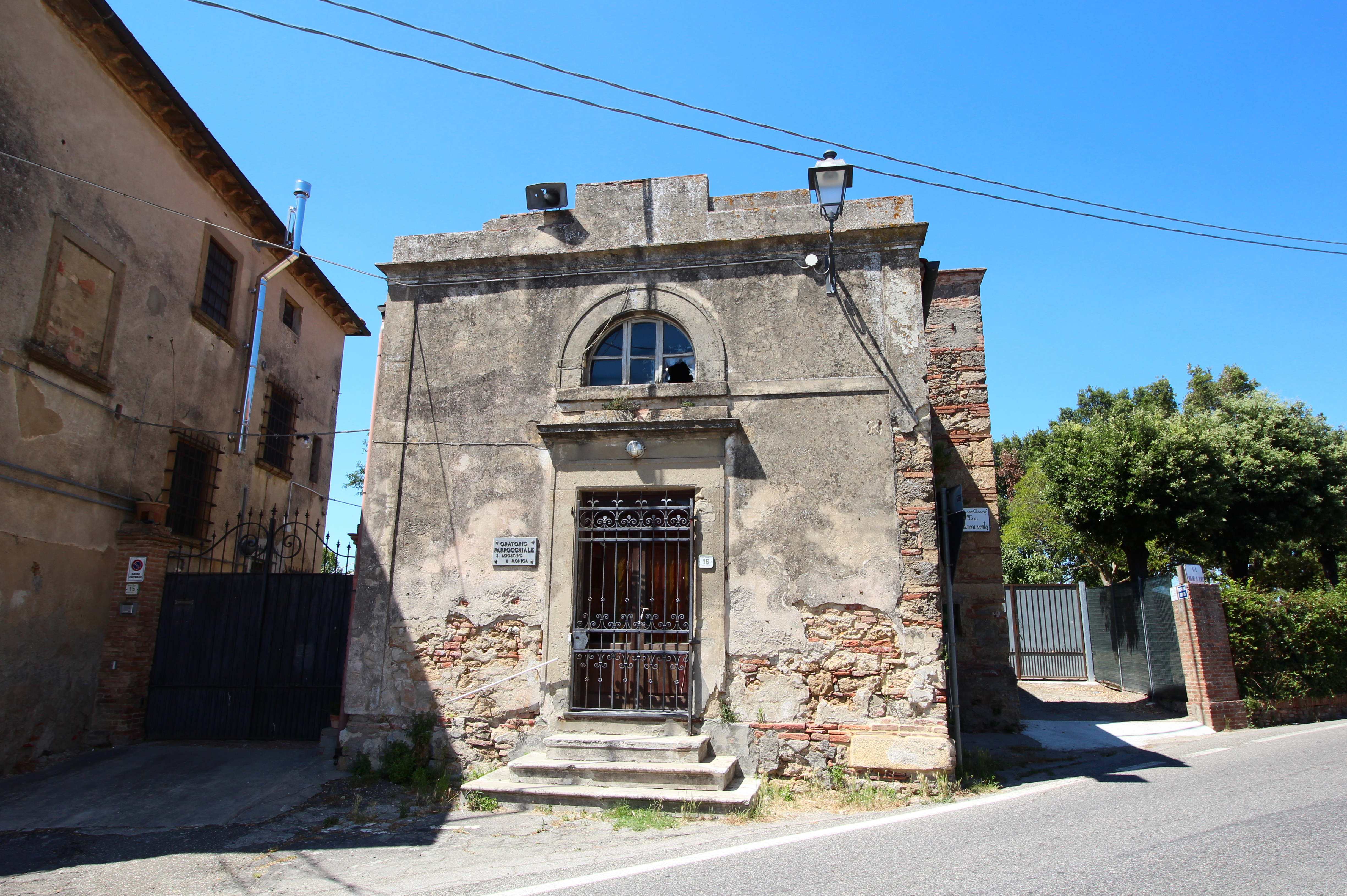 Church/Oratory Santi Agostino e Monica, Orciano Pisano, Province of Pisa, Tuscany, Italy